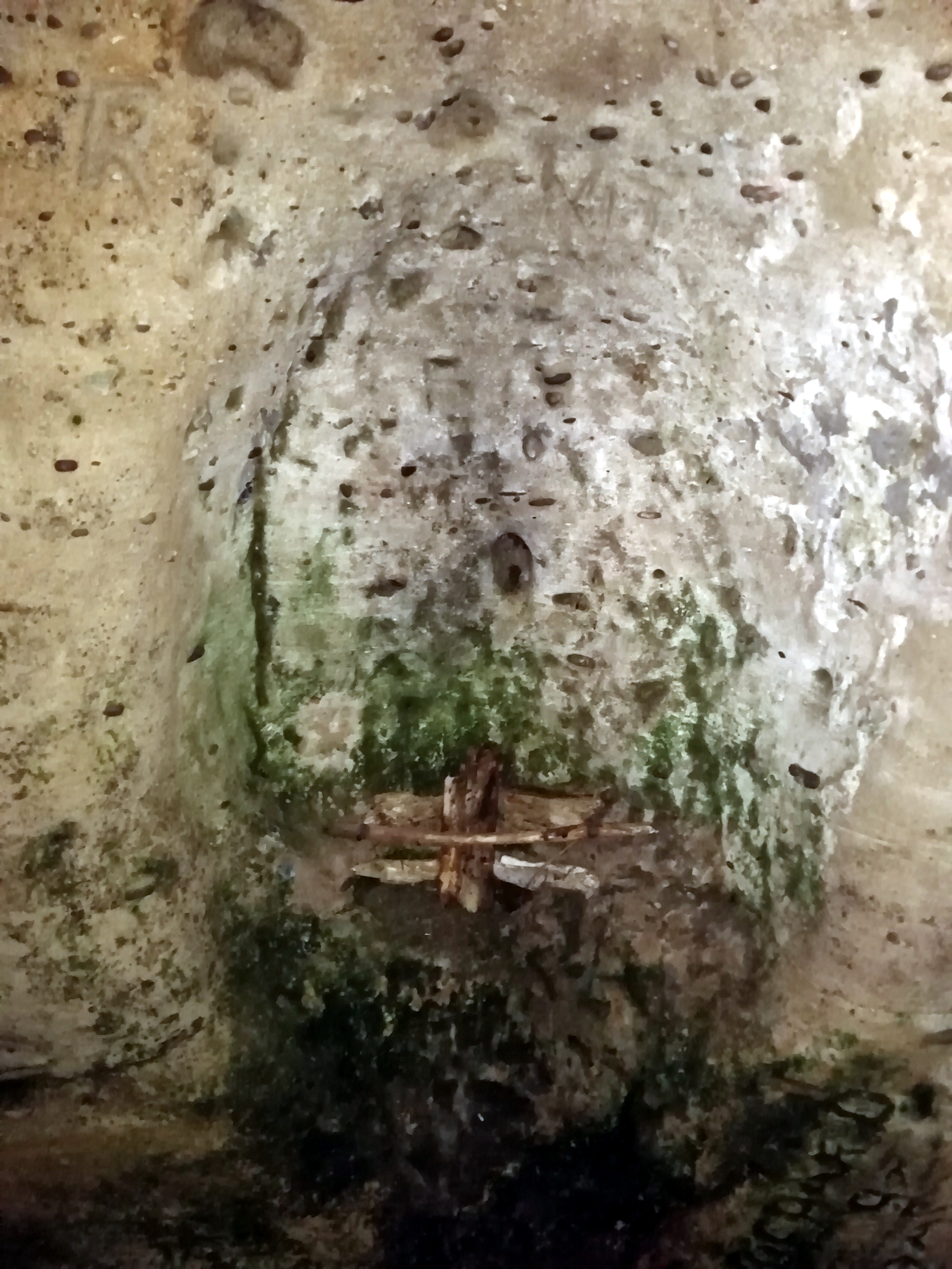 A recess in the west wall of the hermitage about 250m south of Dale Abbey, Derbyshire. Thought to have been used in worship by a 12th century hermit.